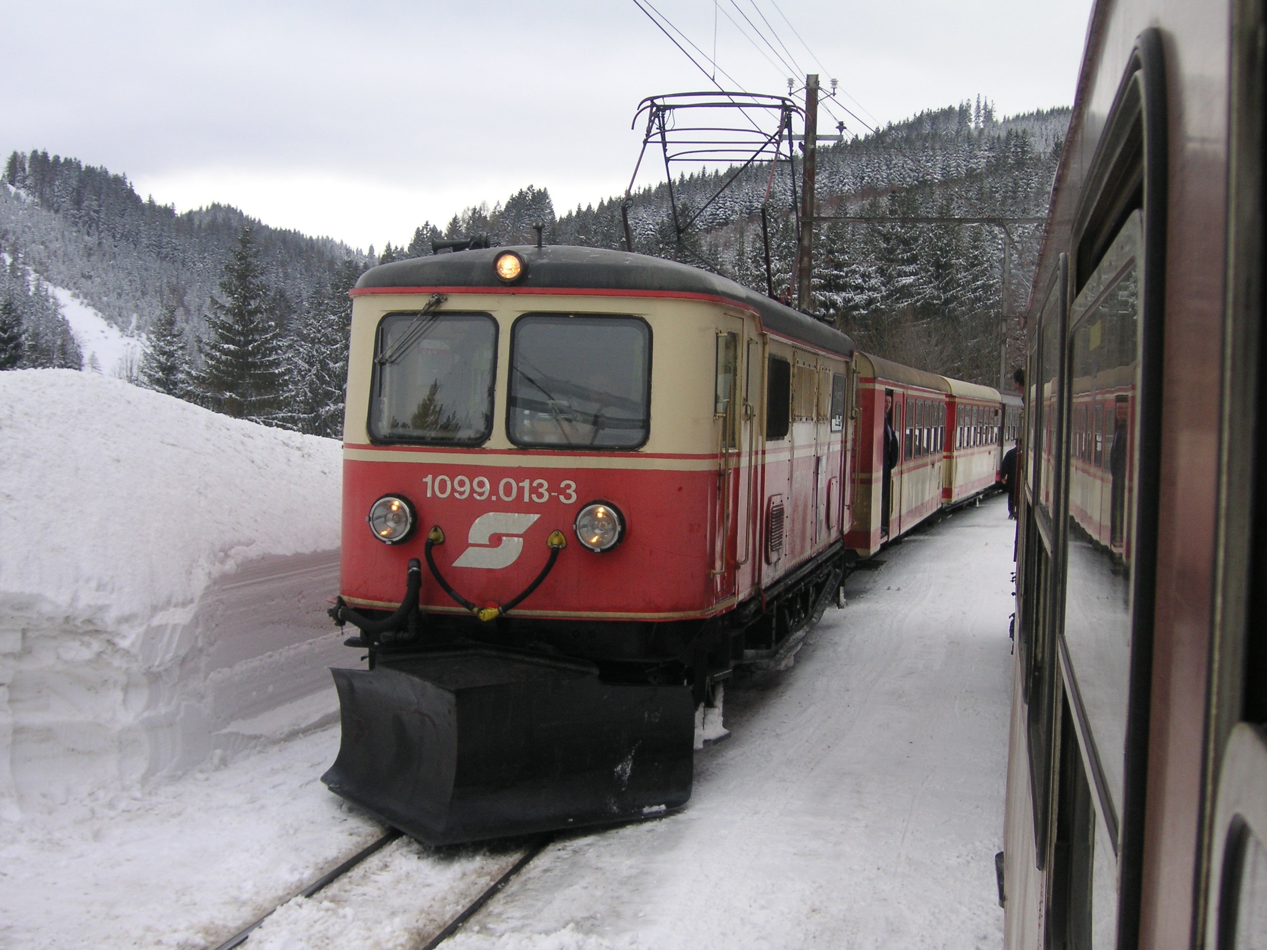 A snowplow mounted on a train. Gösing an der Mariazellerbahn, Austria, February 2006. The locomotive is a 1099.